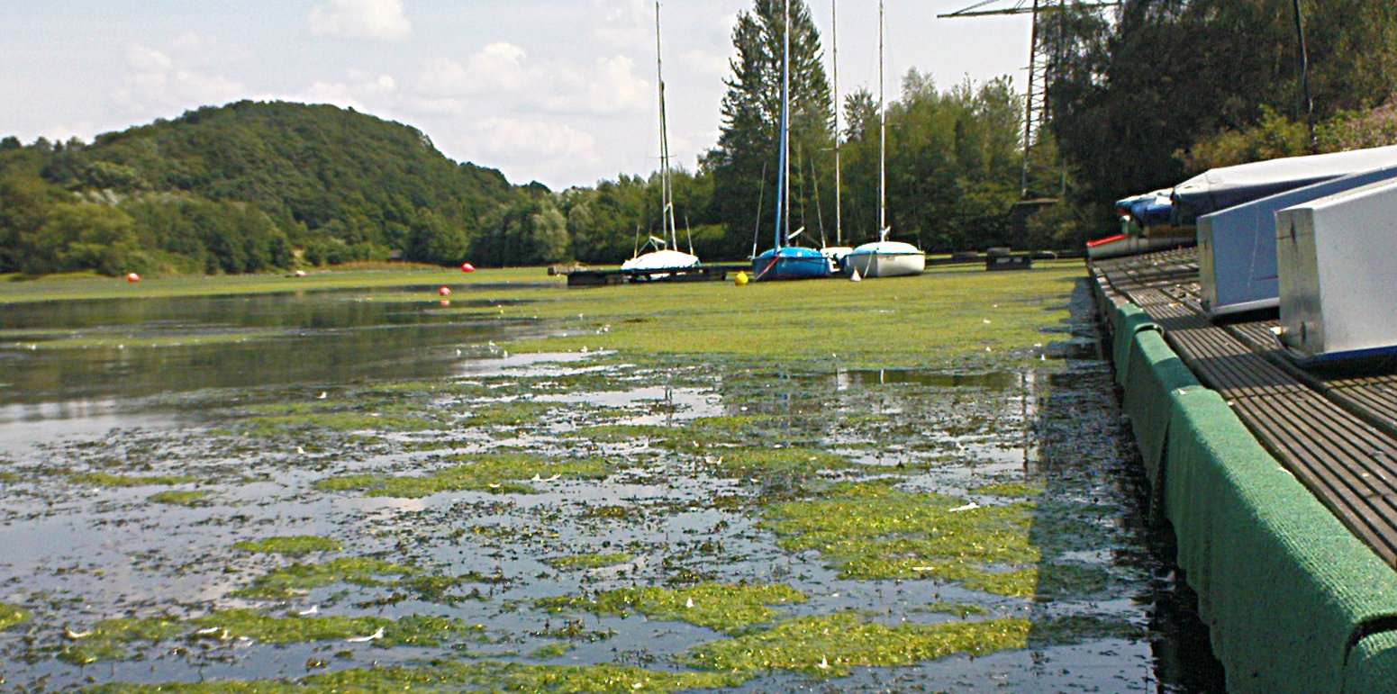 In summer 2008 the population of Elodea plants in the seas along the river Ruhr increased dramatically